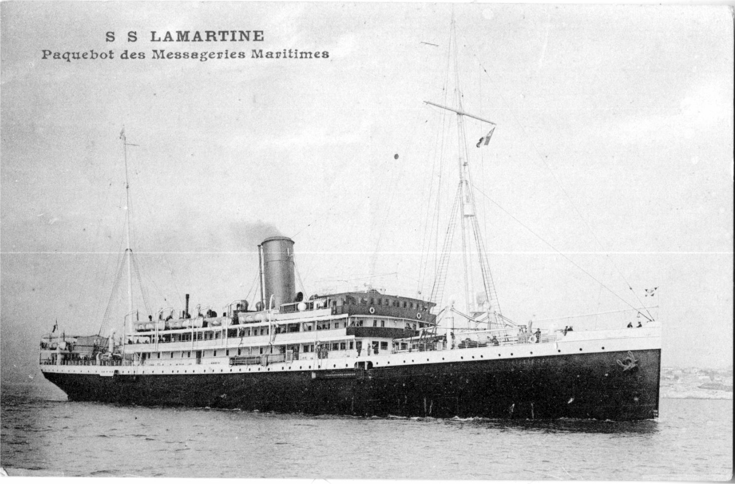 French passenger ship Lamartine (ex-cruiser Respublikanets).